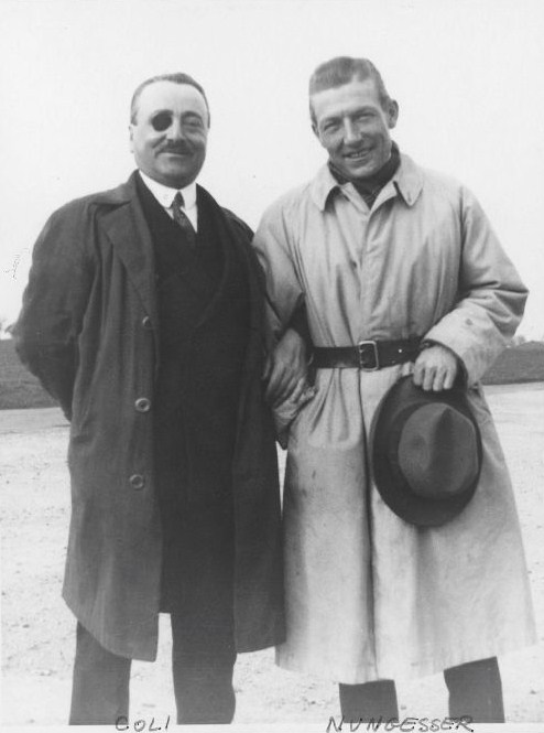 The aviators, Coli and Nungesser, who attempted to fly non-stop across the Atlantic in the L'Oiseau Blanc. They disappeared along with their aircraft on 8 May 1927.